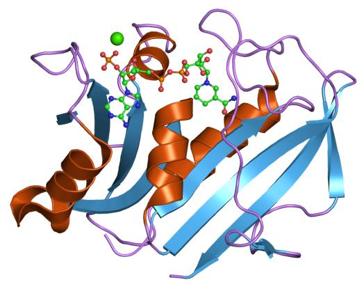 Cartoon representation of the molecular structure of protein registered with 8dfr code.